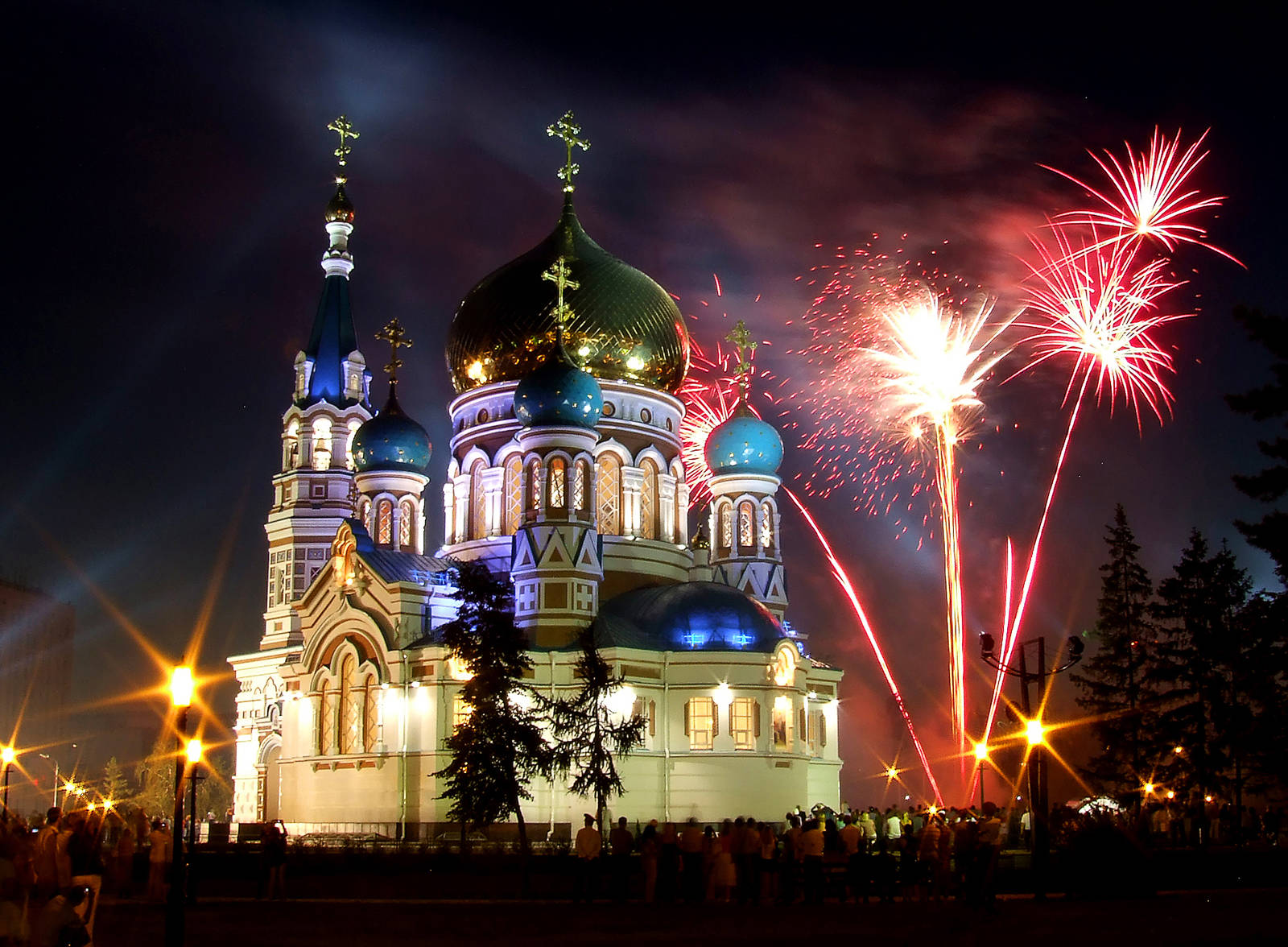 Catedral de Asunción